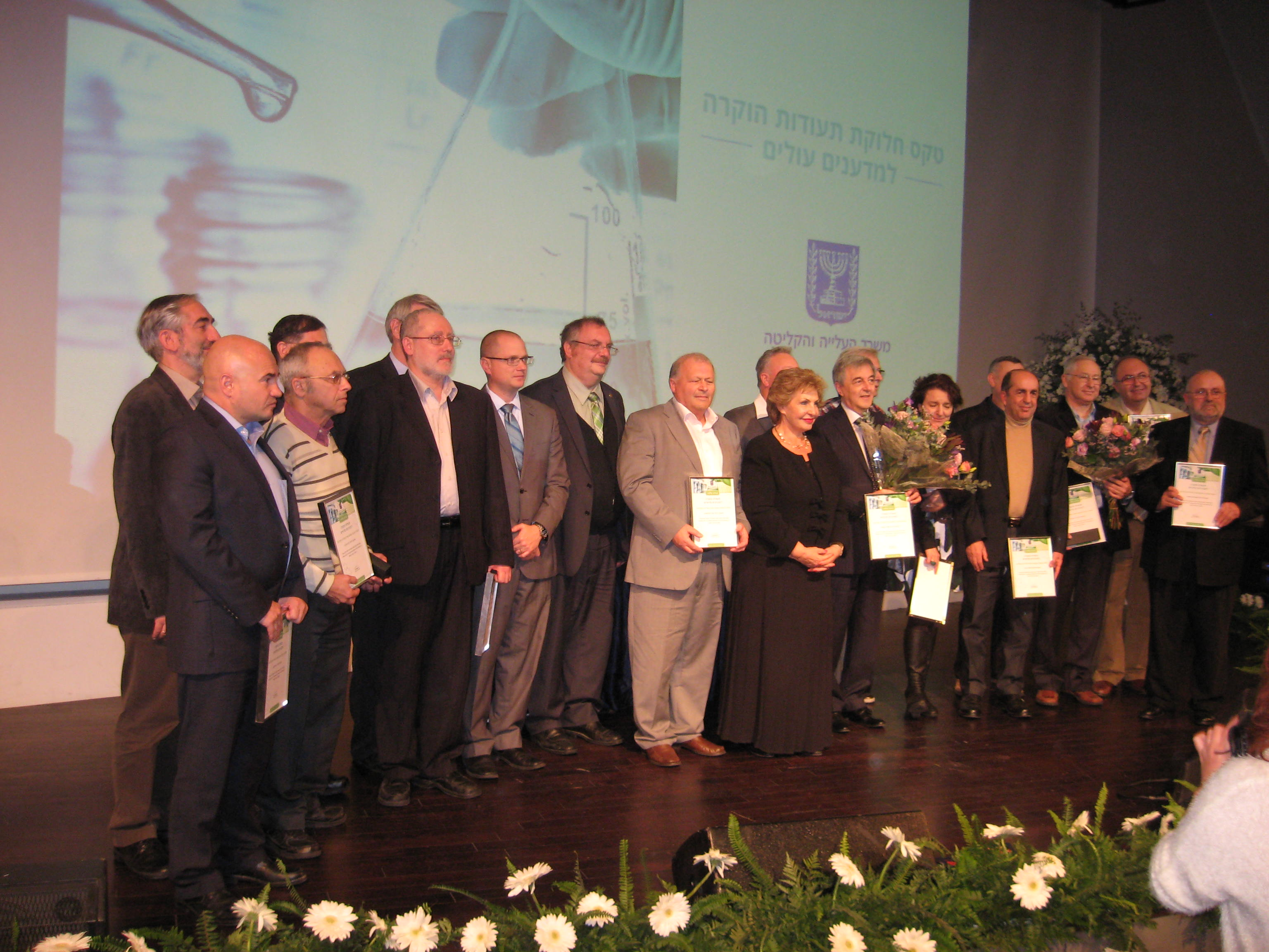 Outstanding Scientists Award 2014 from the Israeli Ministry of Immigration and Absorption, ceremony of awarding